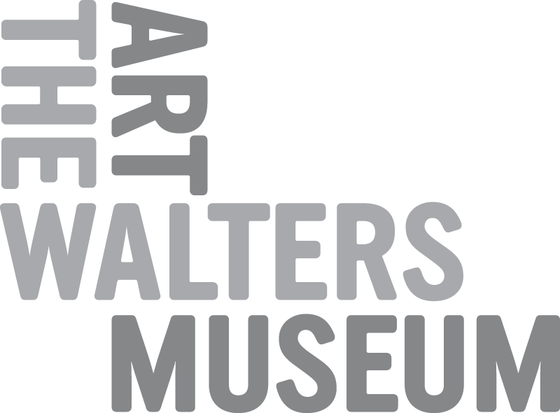 Walters Art Museum logo